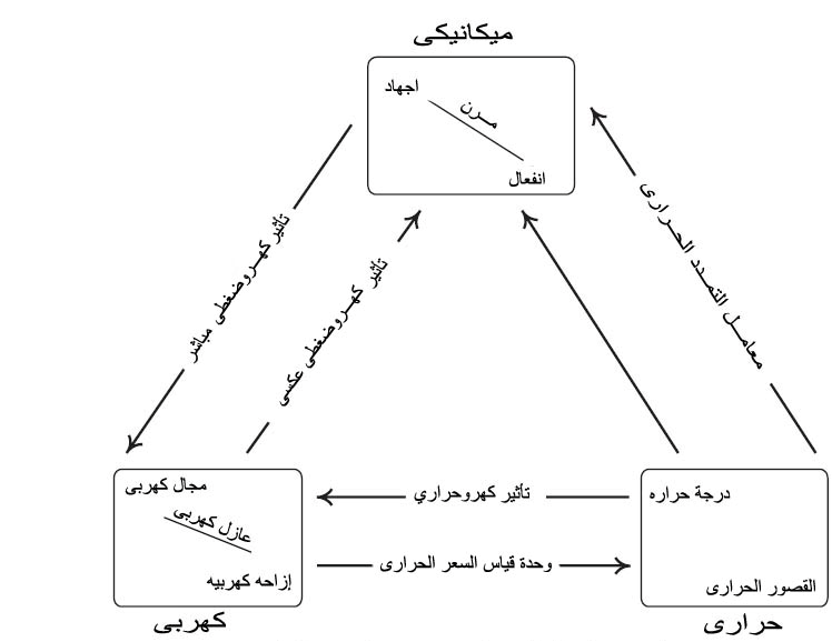 التمثيل المرئى للازدواج بين المجالات الطبيعية